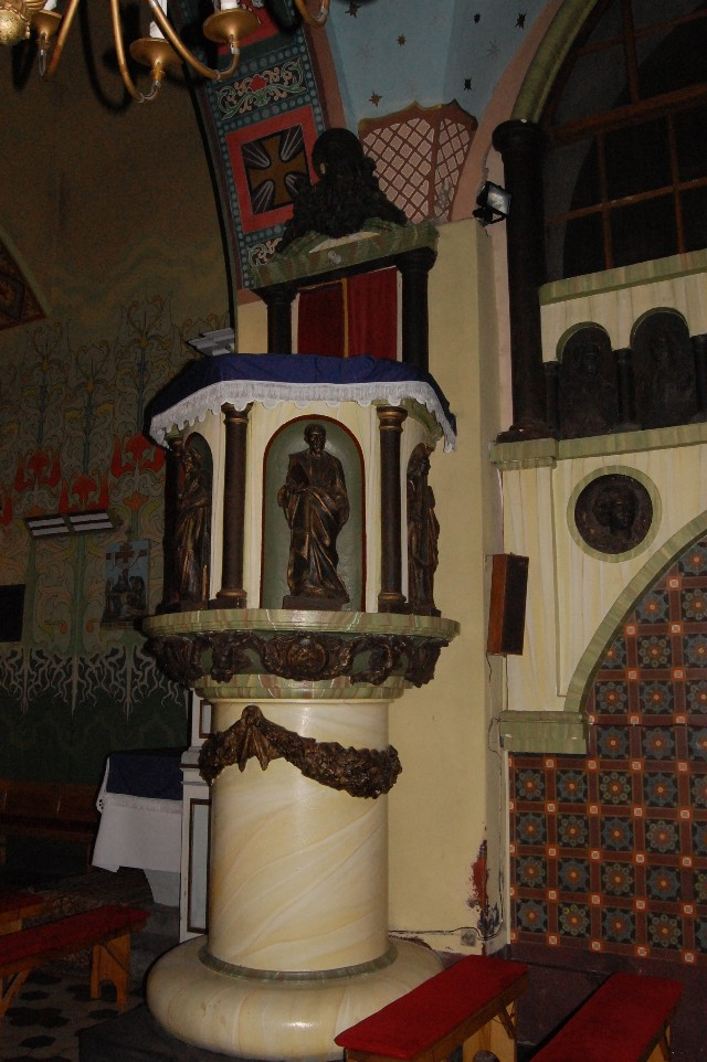 Church in sluzewo